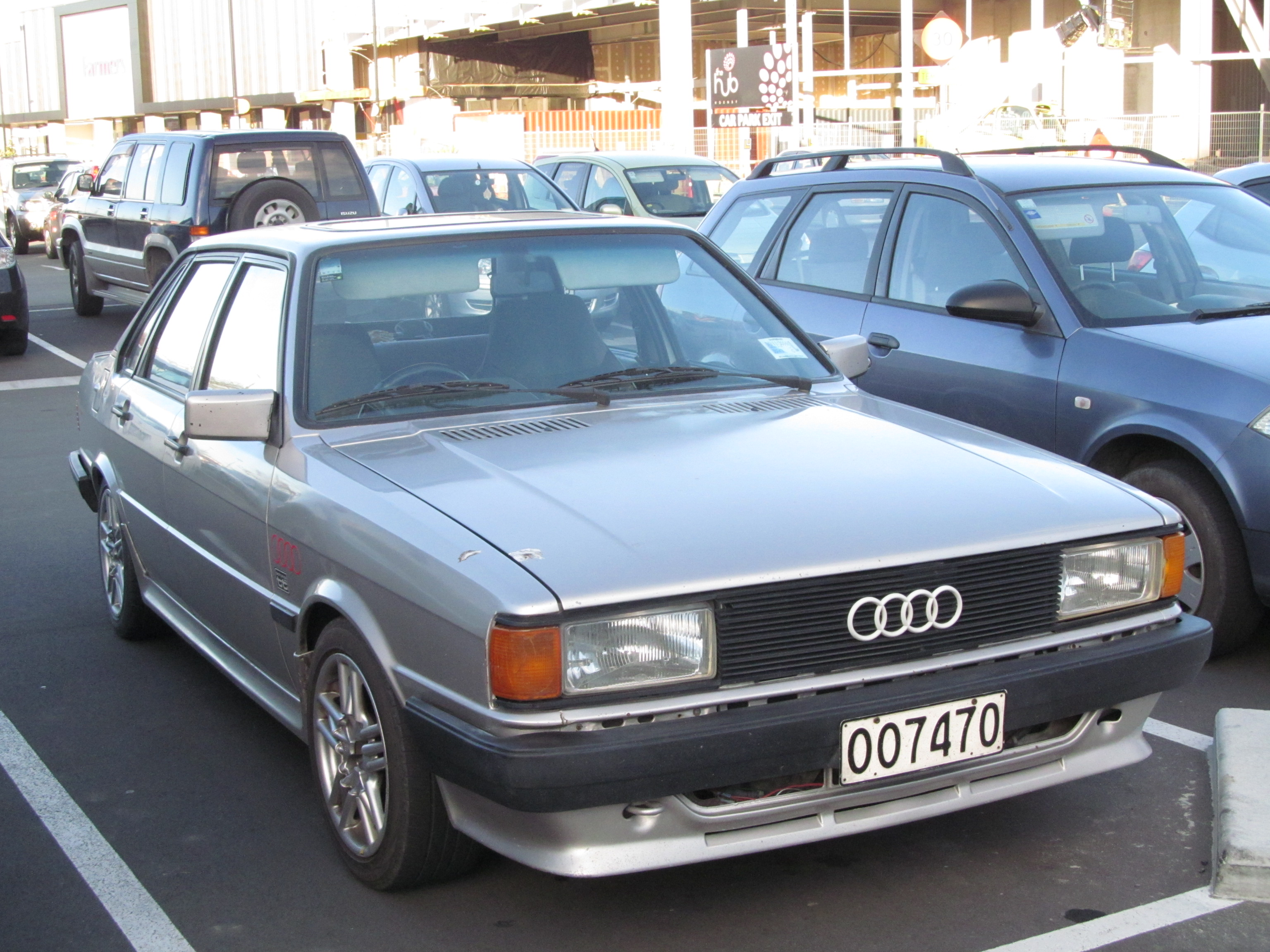 A surprise spot recently. This 80 was imported from the UK in 1986, so would have been either a Y or A reg.